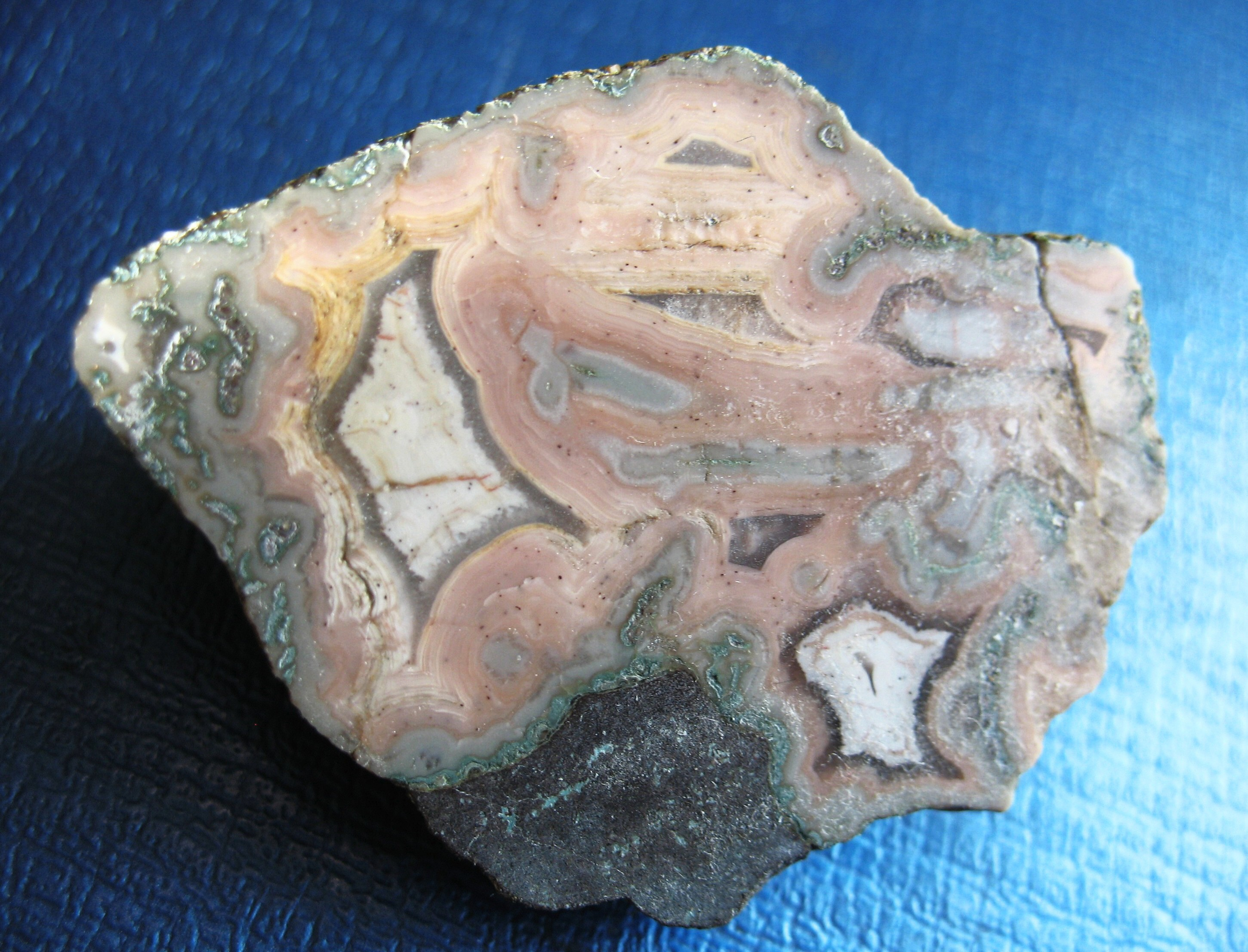 Agate from Lubiechowa (Poland)